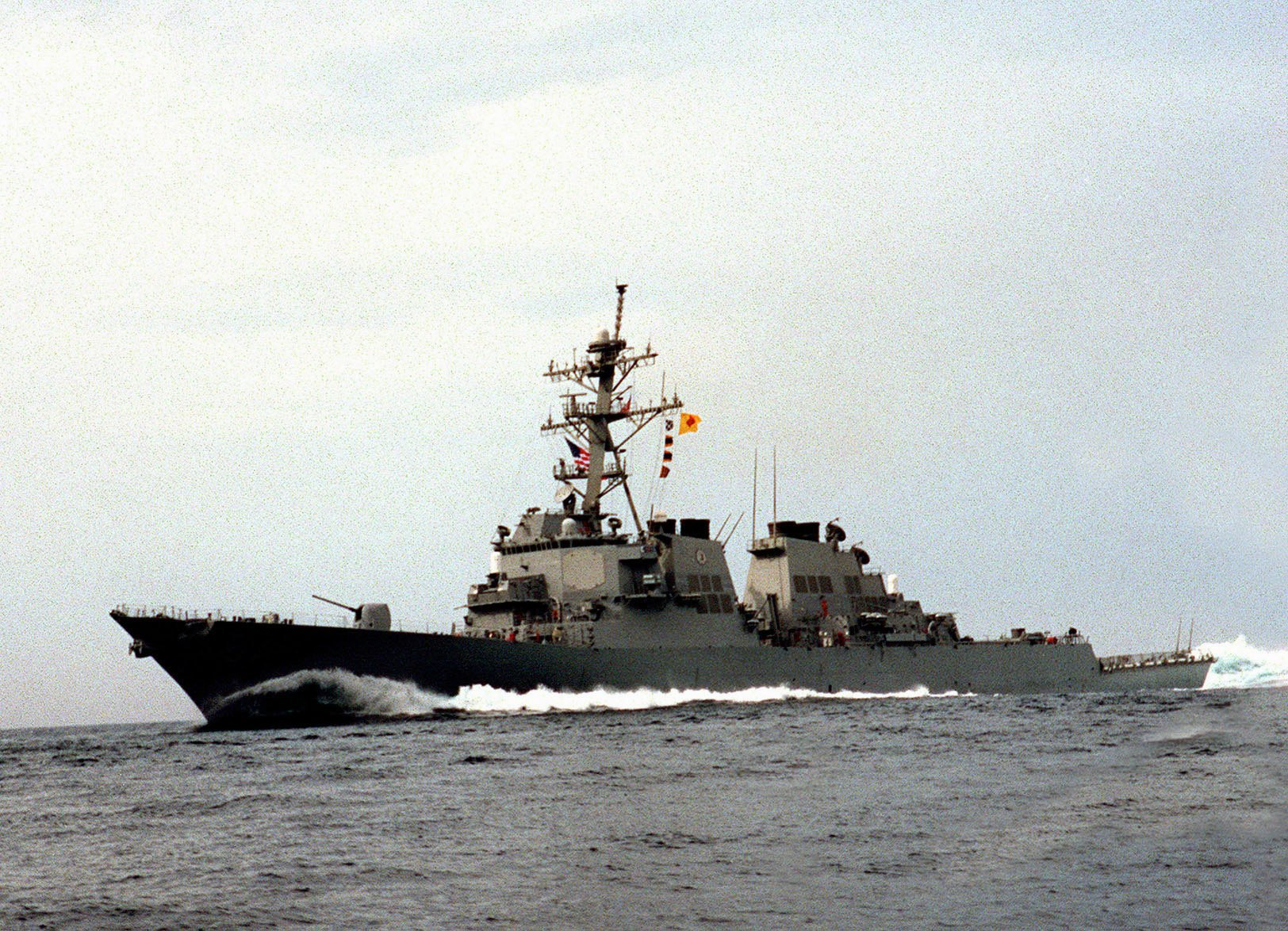 ID: DN-SD-03-11154 Service Depicted: Navy 980422-N-4541B-002 Operation / Series: SOUTHERN WATCH 1998 A port bow view of the USS COLE (DDG-67) underway in the Persian Gulf, in support of the Southwest Asia operations.